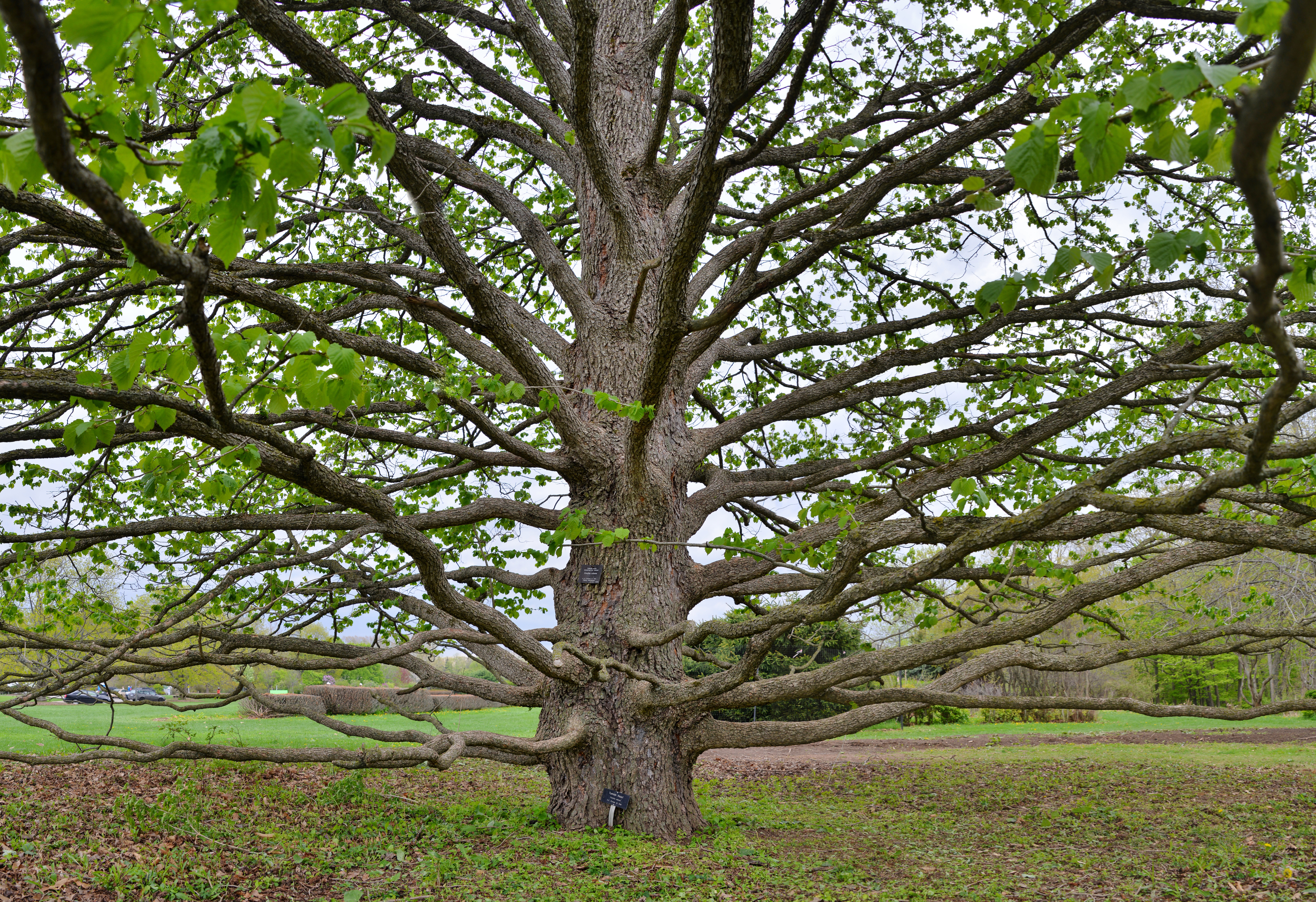 Turkish hazel (Corylus colurna) in Royal Botanical Gardens near Hamilton, Ontario, Canada